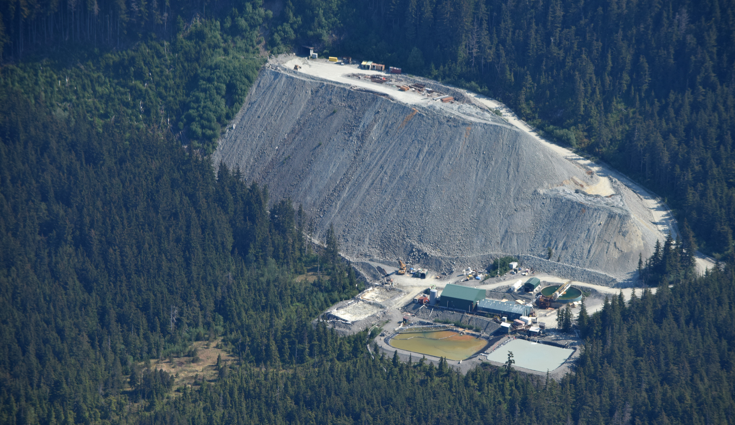 The Kensington Mine's Comet (west) portal is seen from the air Friday, May 22, 2015 north of Berners Bay, Alaska. (James Brooks photo)